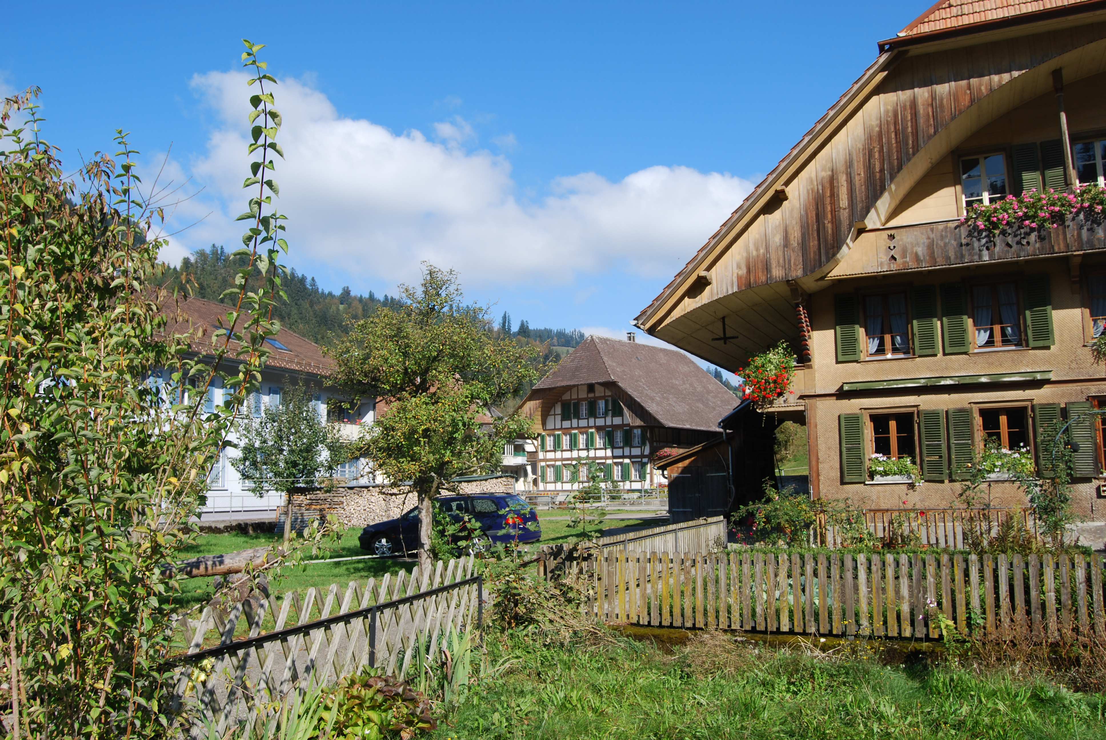 Timber framing house at Trubschachen, canton of Bern, SwitzerlandEsperanto: Faktrabdomo en Trubschachen, Kantono Berno, Svislando